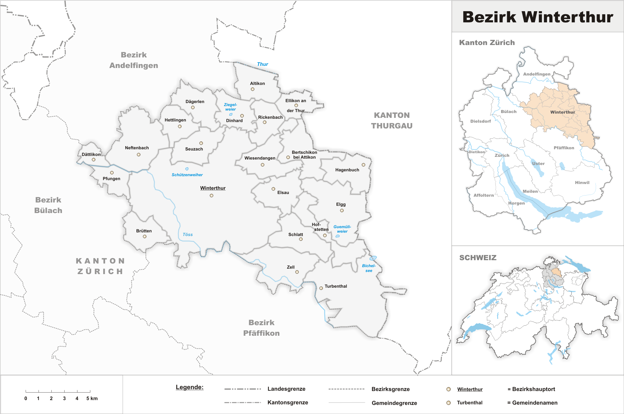 Municipalities in the district of Winterthur